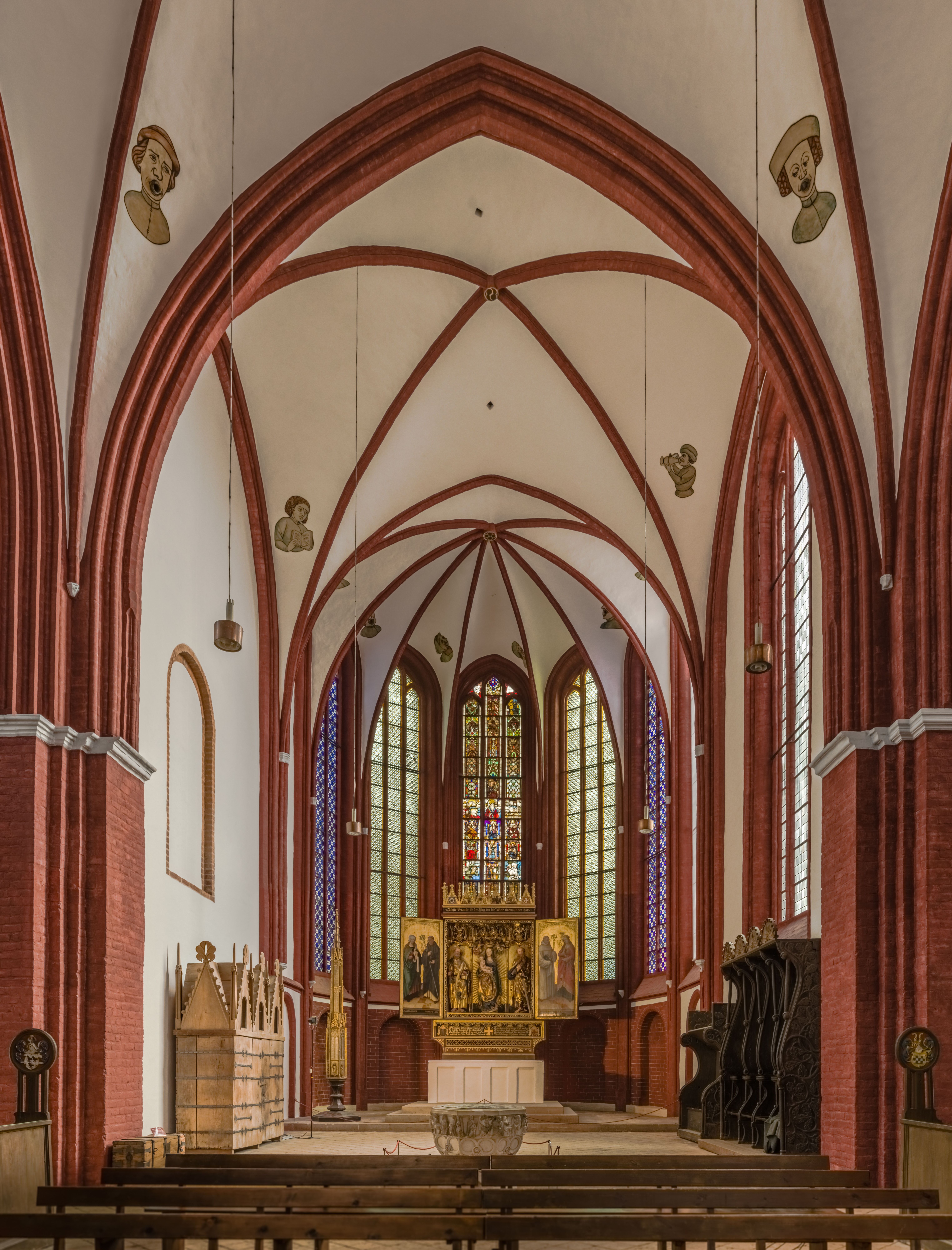 Choir of Brandenburg Cathedral St. Peter and Paul, Brandenburg an der Havel, Germany